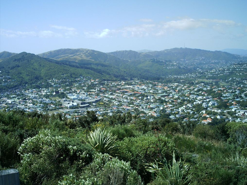 Photo of the eastern half of Karori (part of Wellington, New Zealand)